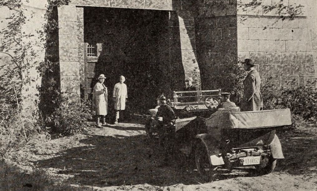 Still from the American drama film The Prisoner (1923), on page 396 of the January 20, 1923 Exhibitor's Trade Review.